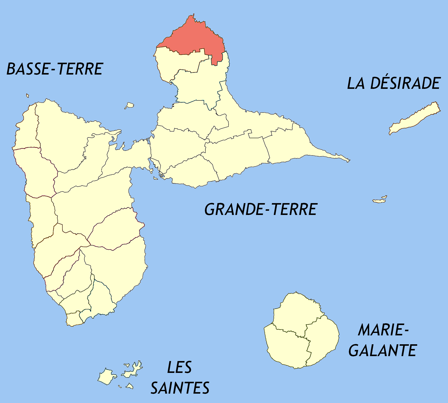 Created map myself.